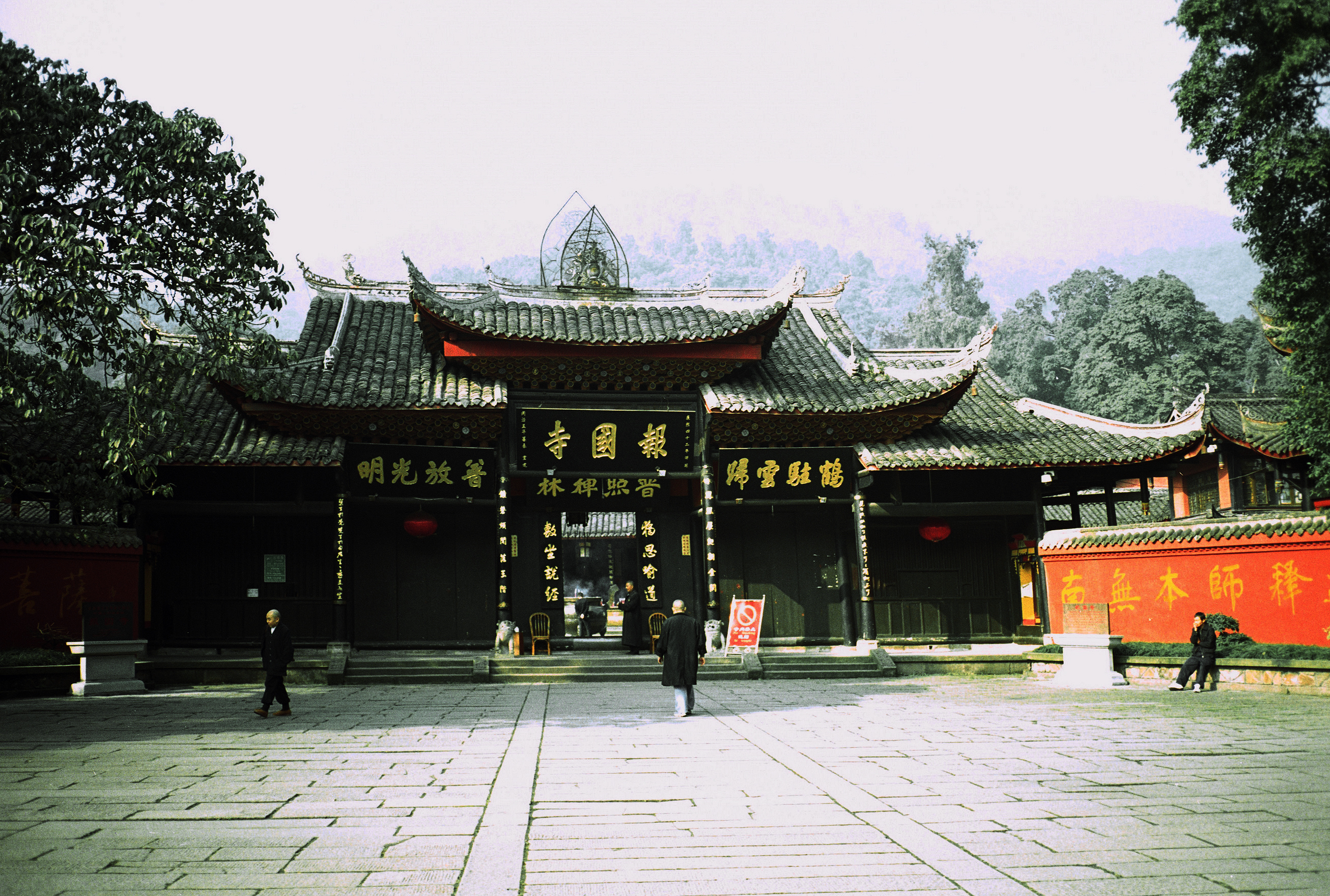 峨眉山報國寺 Bao Guo Temple in Emei Mountain